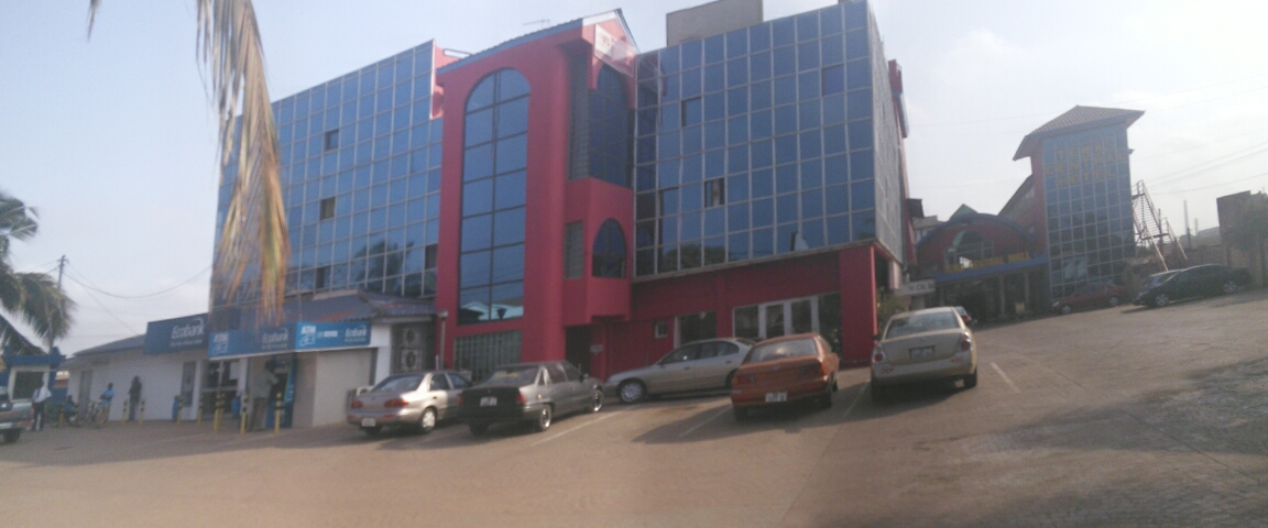 A panorama view of the Tema Central Mall